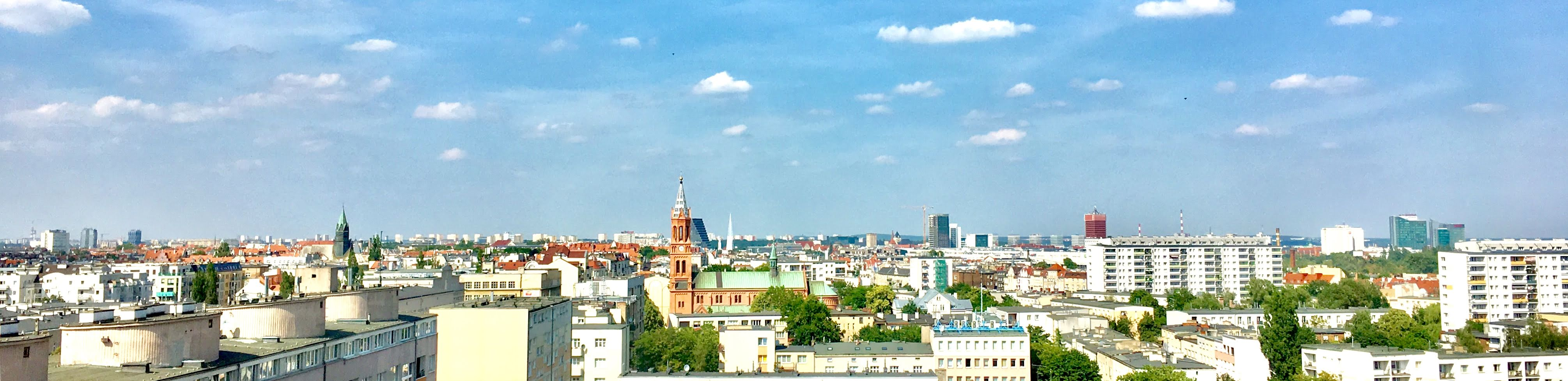 Panorama of Poznania from Łazarza